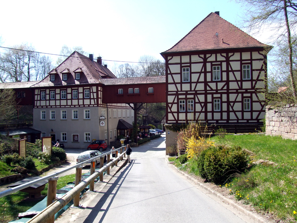 Wildbad